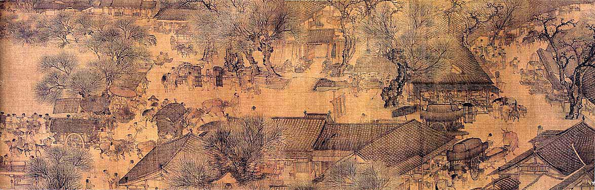 Portion of the Chinese cityscape handscroll Along the River During Qingming Festival, ink and colors on silk, 25.5 × 525 cm.